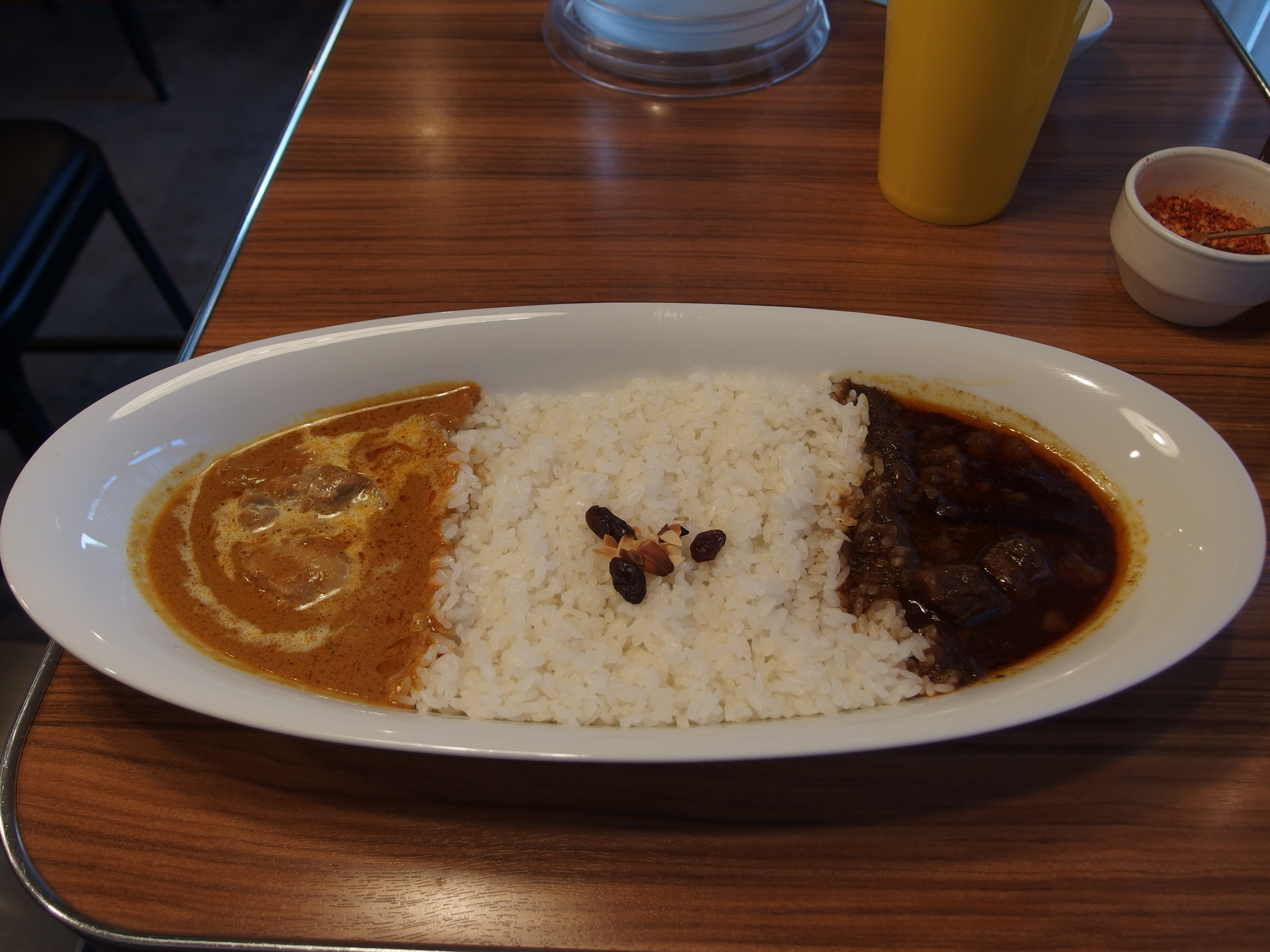 Combo Beef / Chicken Curry @ Curry Up @ Jingumae